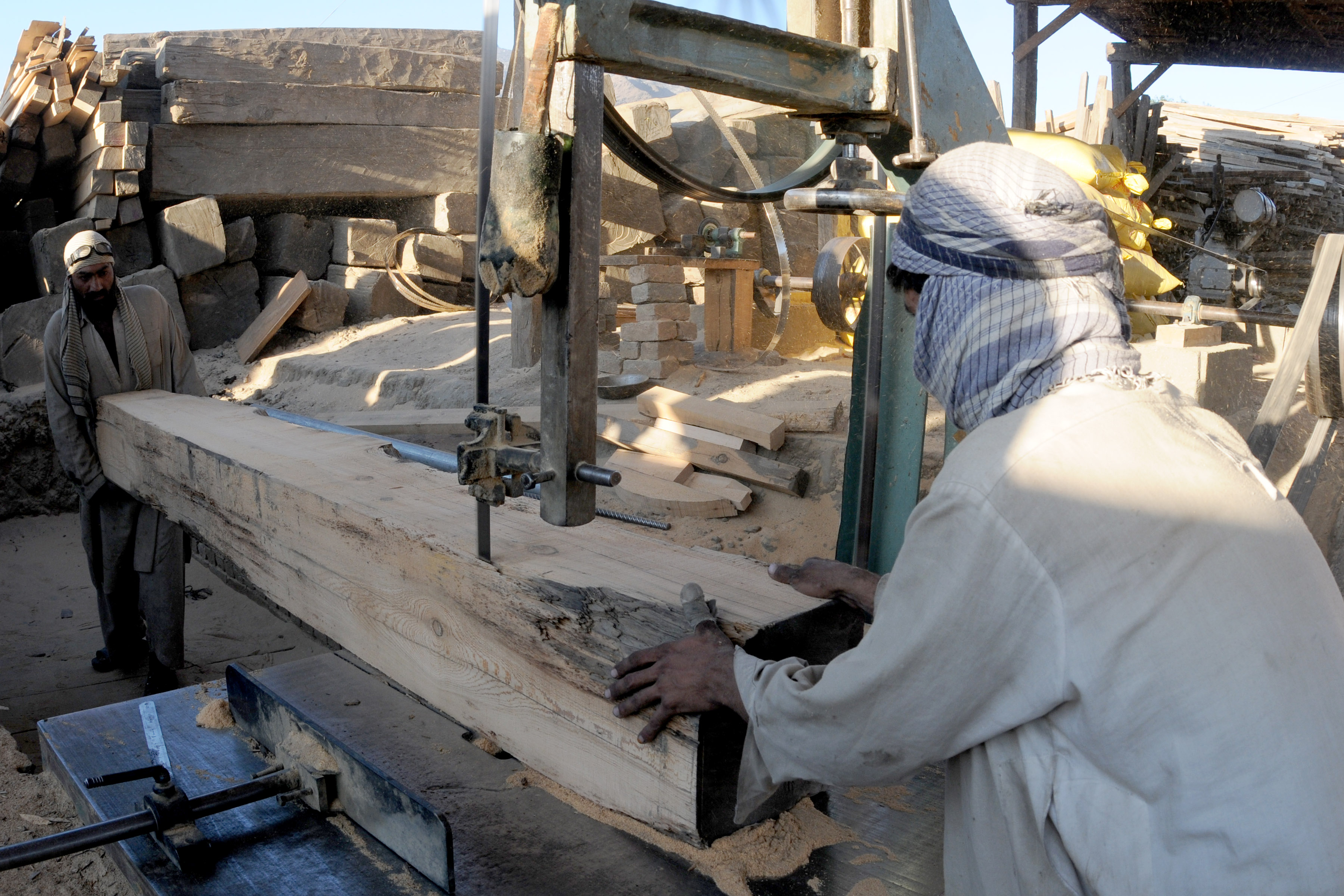 Two Afghans saw a massive tree so that it's flat on all sides for easier stacking at a local saw mill in downtown Asadabad, Afghanistan, Nov. 13, 2009. There is currently a ban on cutting new timber in Afghanistan and members from the Provincial Reconstruction Team-Kunar based atCamp Wright in Asadabad, along with members from the Department of State, stopped at the sawmill to ask locals how the timber industry works and how Afghans might prosper if the ban was lifted. Prior to 2001 and under Taliban Law, massive deforestation of the country side was permitted and Afghans moved large quantities of logs into storage centers for profit, where the trees wait for processing on an individual tree by tree request. (Photo ID: 223411)